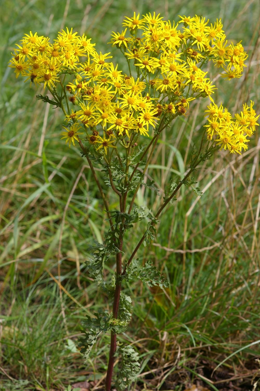 Flowering Ragwort, Jacobaea vulgaris (syn. Senecio jacobaea.